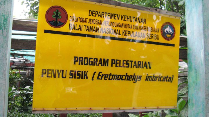 Kepulauan Seribu, DKI Jakarta, Indonesia